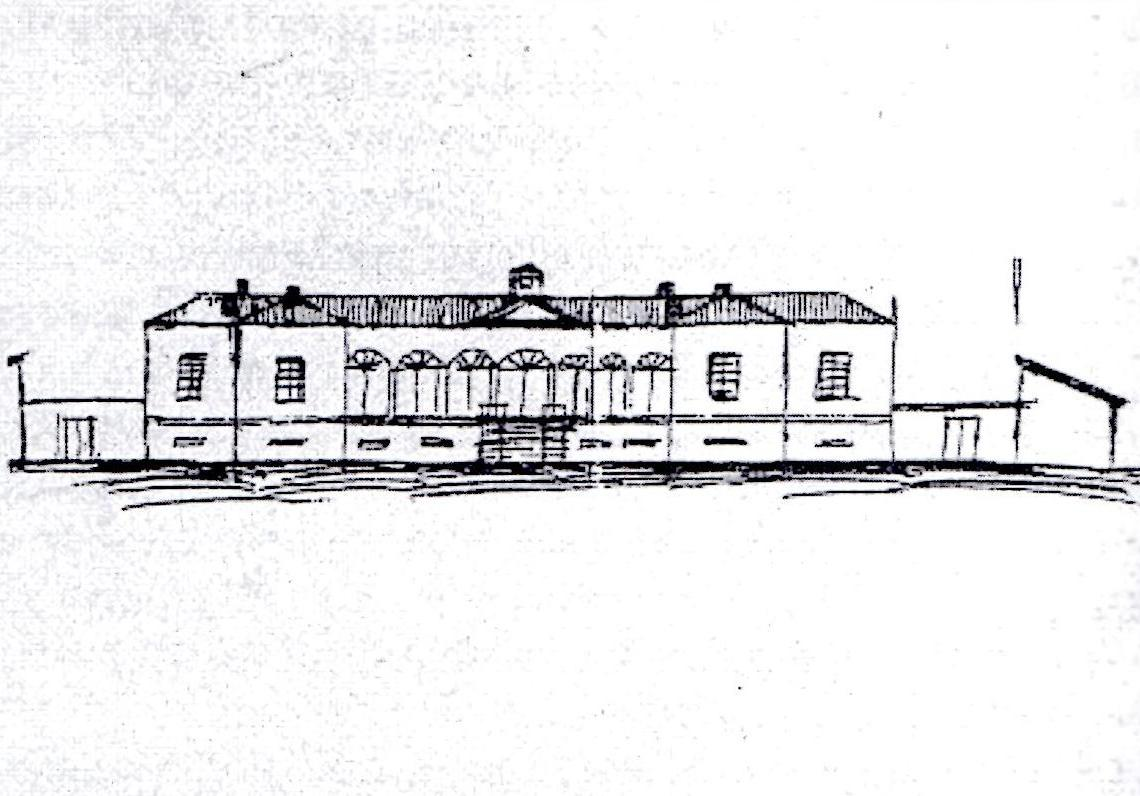 Πρόσοψη της οικίας που έχτισε ο Αλέξανδρος Ρουζιού στο Χαρβάτι (σημερινή Παλλήνη) το 1845